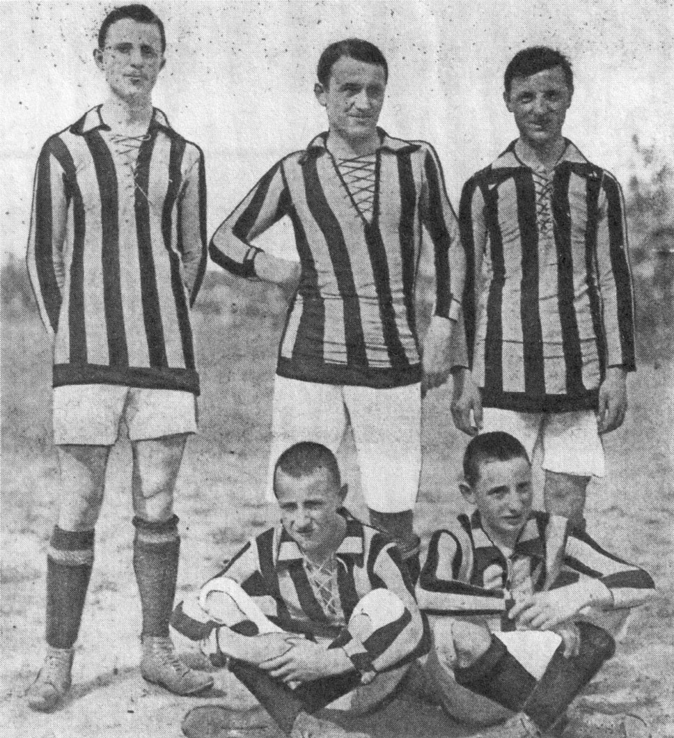 The five Cevenini brothers with Inter Milan in the 1920–21 season.